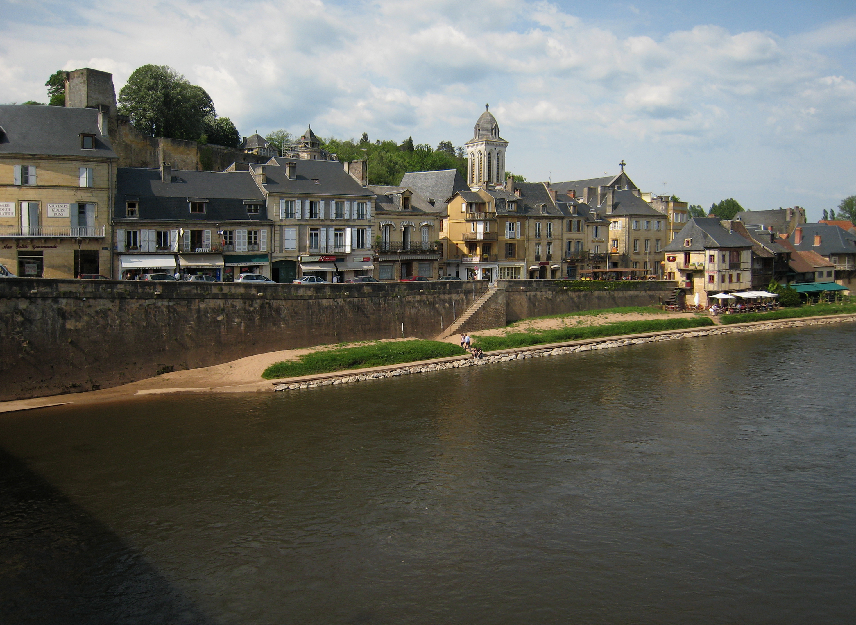 Old town of the village of Montignac on the bank of the river Vézère in the Département of Dordogne/France